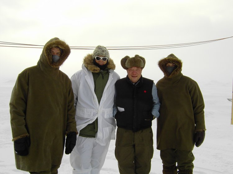 Ben Browder, Richard Dean Anderson, Barry Campbell (Head of Operations at the Navy's Arctic Submarine Laboratory in San Diego) and Amanda Tapping in the Arctic filming Stargate Continuum in early 2007.